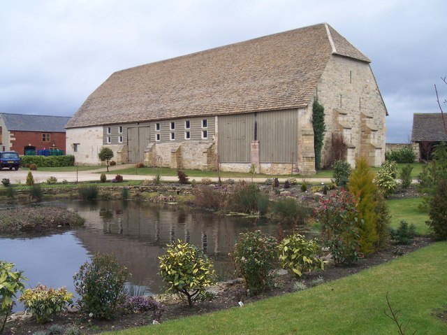 Brockworth Court Tithe Barn. Built around the 15th Century by the Lord of the Manor, Llanthony Priory.